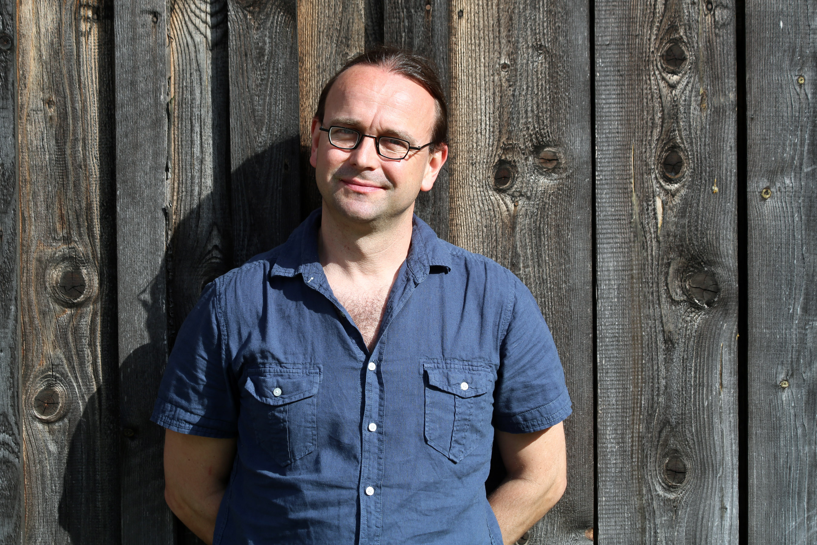 Lucas Niggli - Ulrichsberger Kaleidophon (Ulrichsberg, Upper Austria)